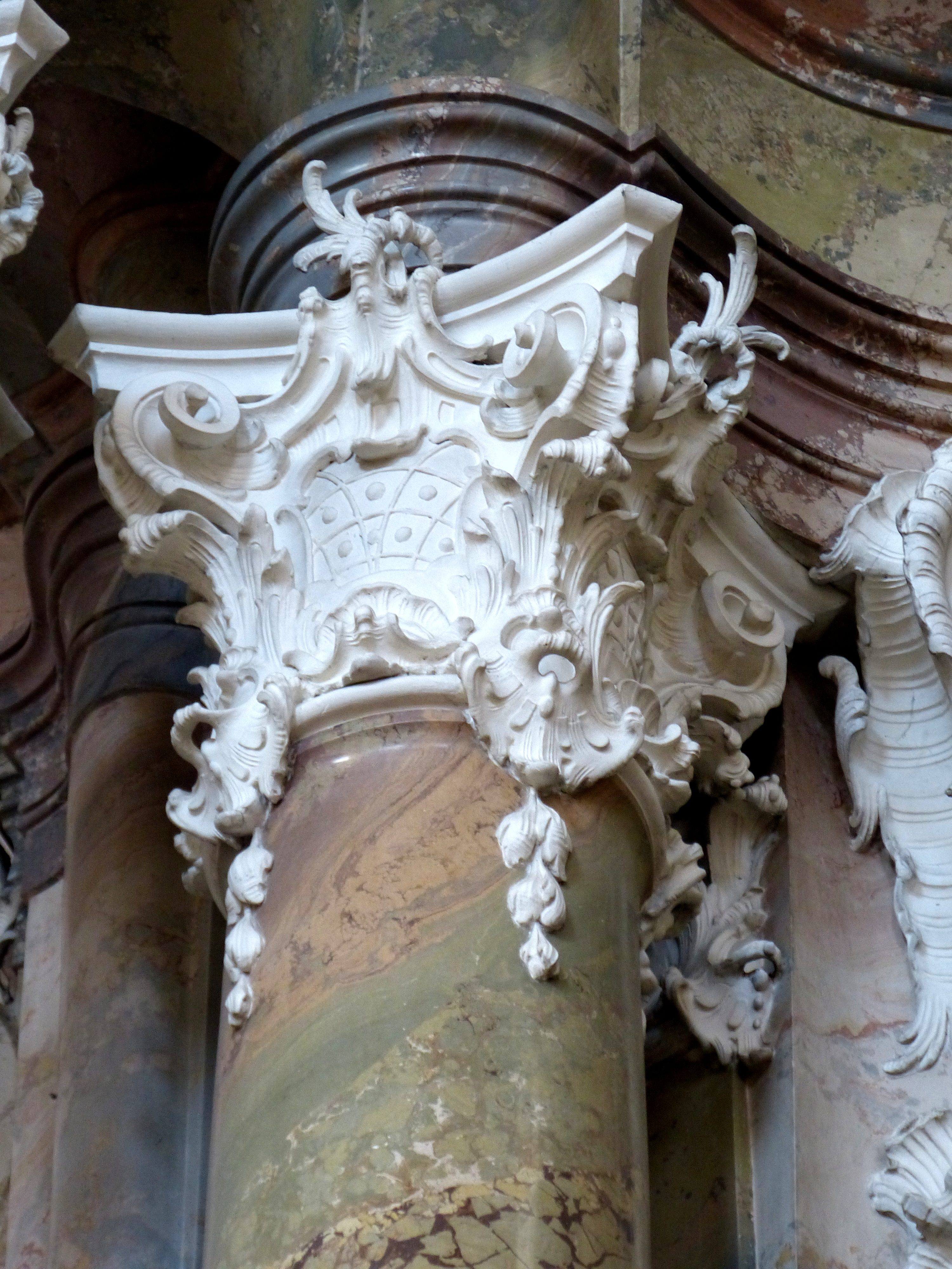 Engelhartszell ( Upper Austria ). Engelszell monastery church ( 1754-64 ) - Altar of Saint John of Nepomuk: Rococo capital by Johann Georg Üblhör.